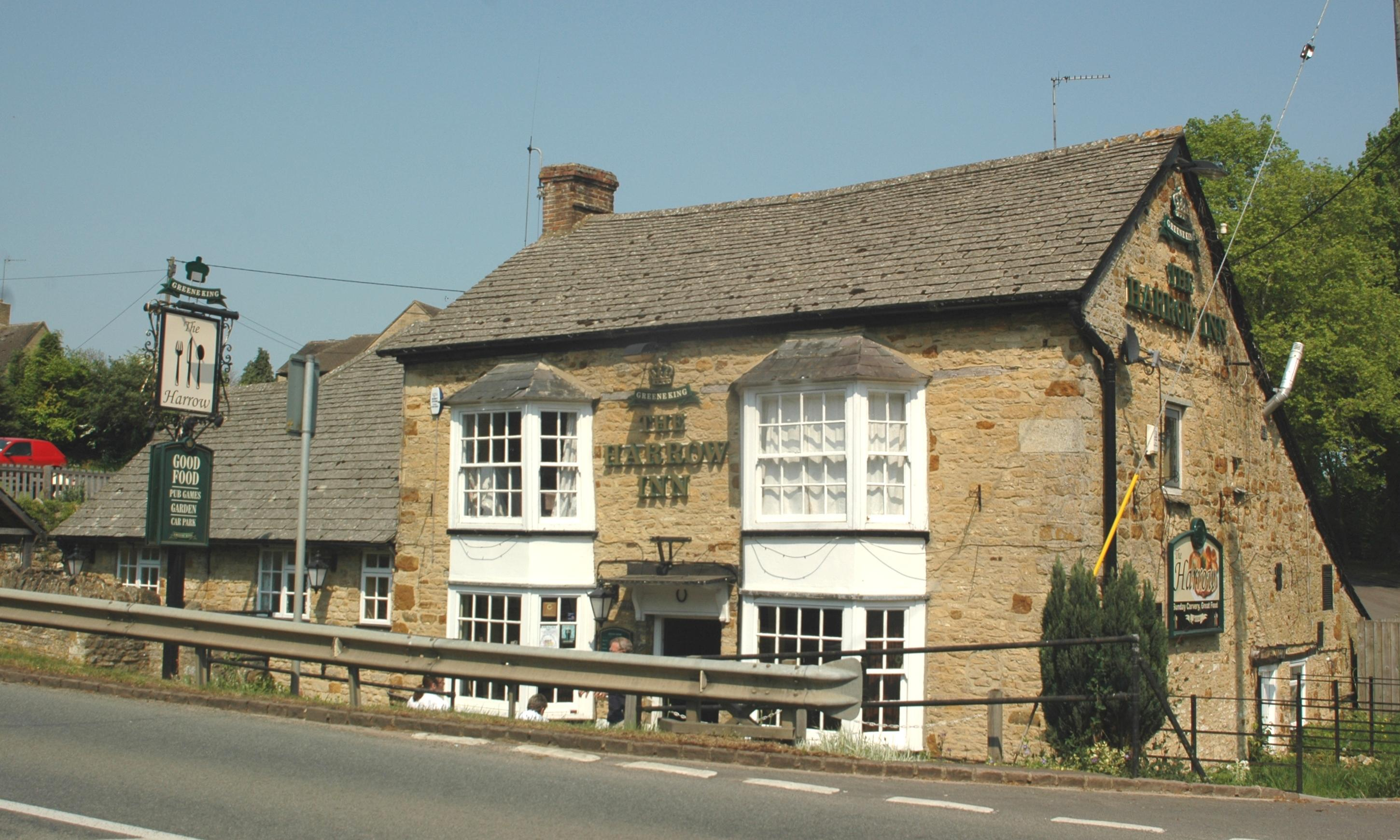 The Harrow Inn, Neat Enstone, Oxfordshire